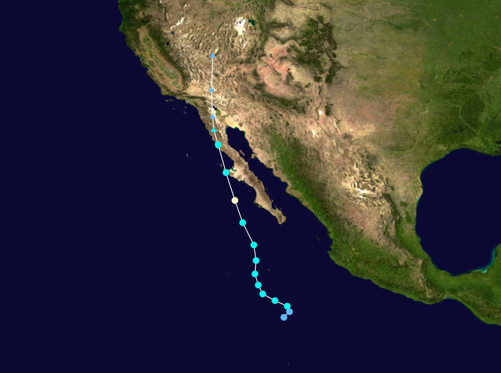 Hurricane Kathleen (1976) track. Uses the color scheme from the Saffir-Simpson Hurricane Scale.